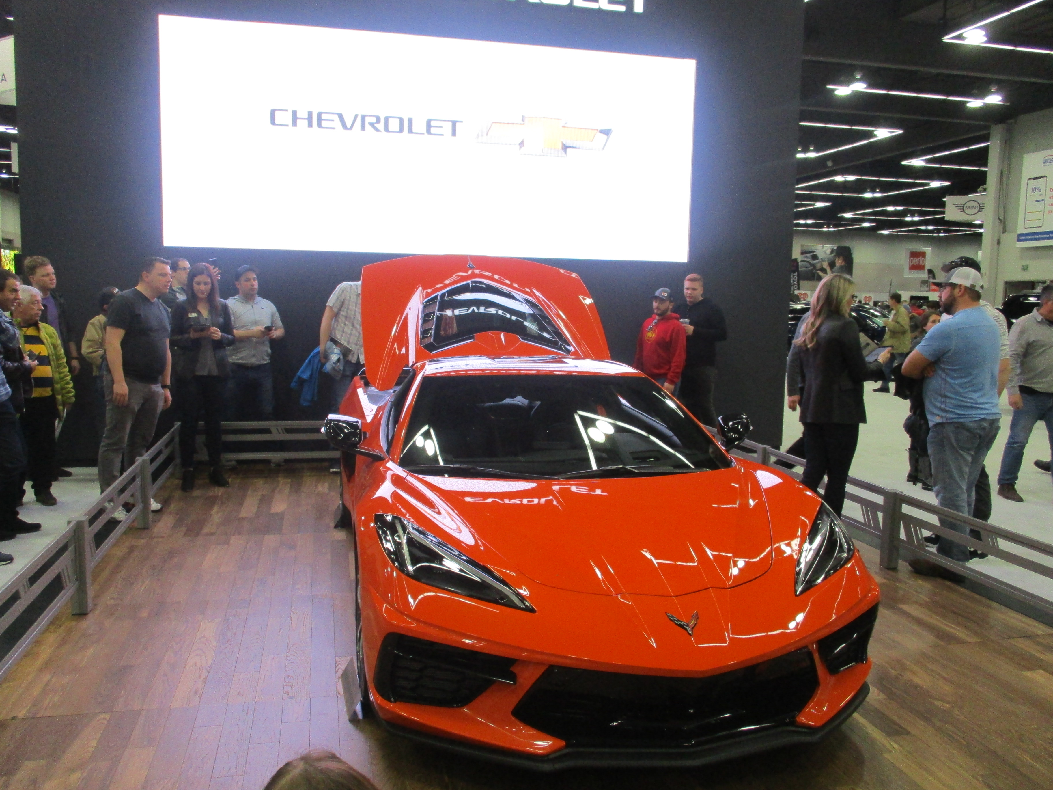 Corvette C8 on display at the Portland International Auto Show 2020.